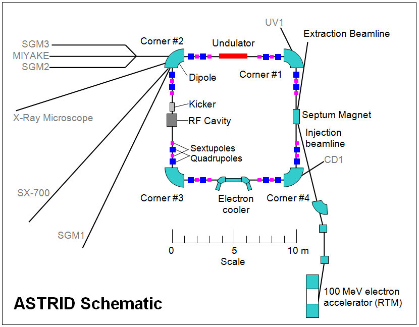 A schematic diagram of the ASTRID storage ring in Aarhus, Denmark, which also shows the location of the 8 beamlines using the light from the ring.